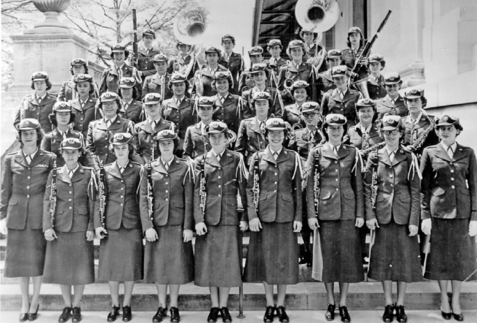 WAF Band at USAF Band School, Bolling AFB, Washington DC. Early '50s. Source: USAF photo